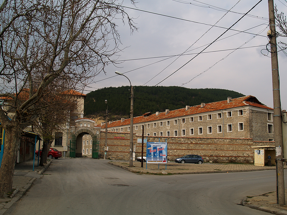 The Dobri Zhelyazkov textile factory in Sliven, built in 1834, a prison from 1904 to 1944, now a museum